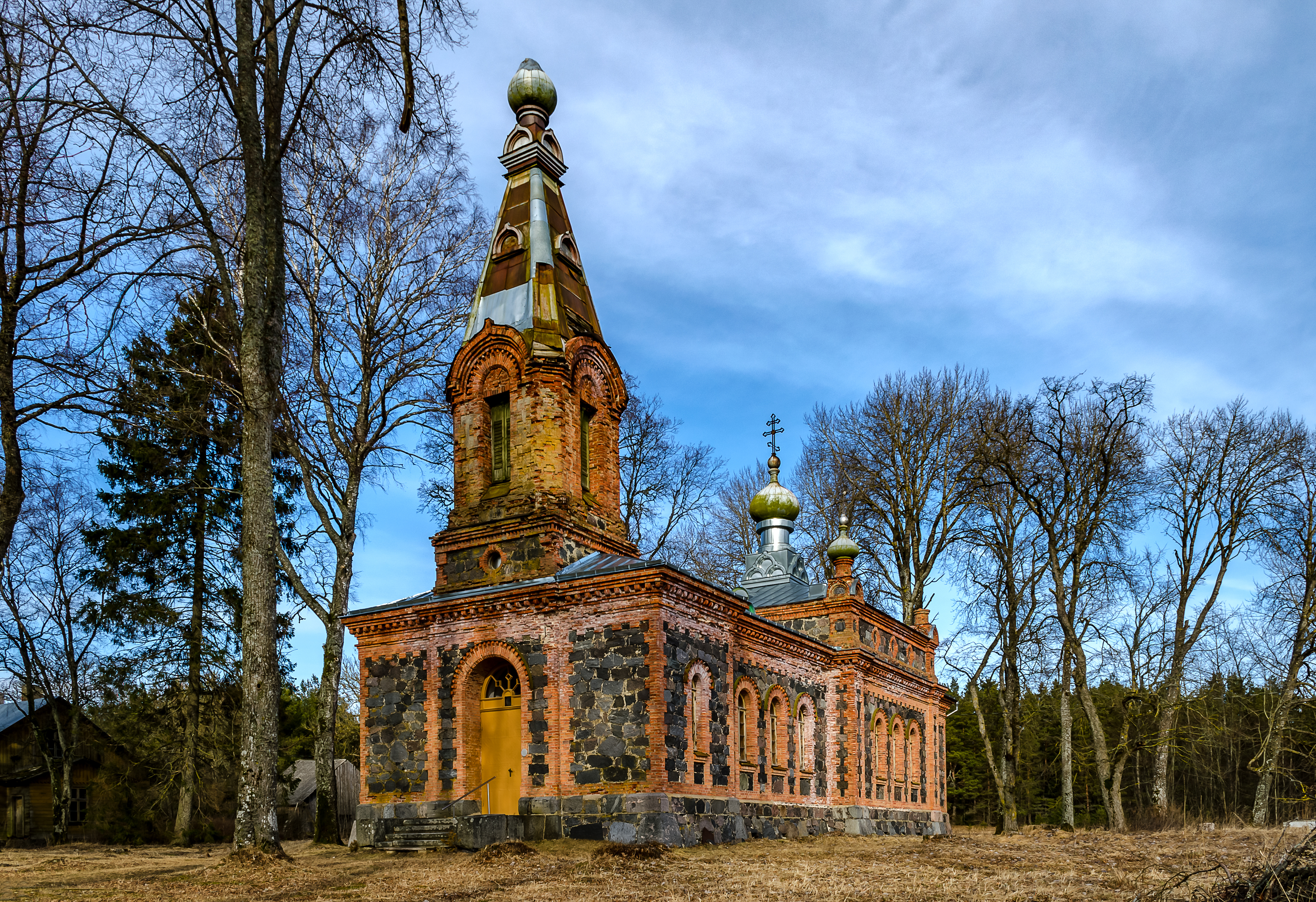 Paadrema orthodox church in Estonia.